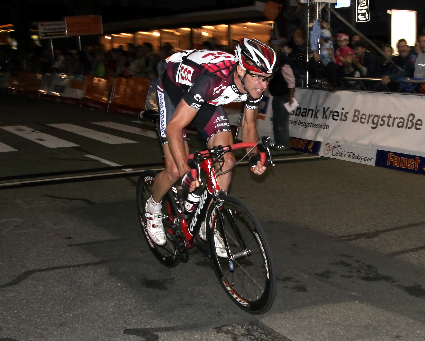 Jens Voigt, the German cyclist, in Lorsch (Hesse, Germany) during the Entega Grand Prix 2007 race